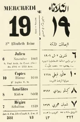 Eng: Leaf from a 1901 Jerusalem calendar عربي: ورقة من تقويم من مدينة القدس يرجع إلى سنة 1901